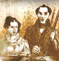 Gun group by Branwell Bronte